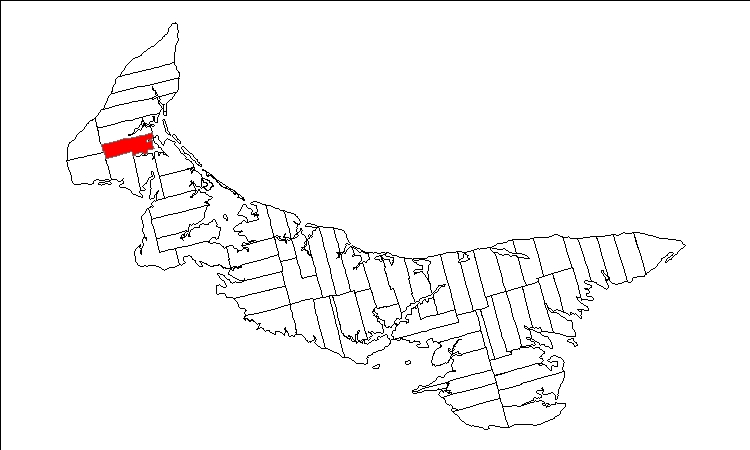 Public domain map of Prince Edward Island created by User:Plasma east with data courtesy of Geogratis, modified to show townships. Released under GFDL (self).